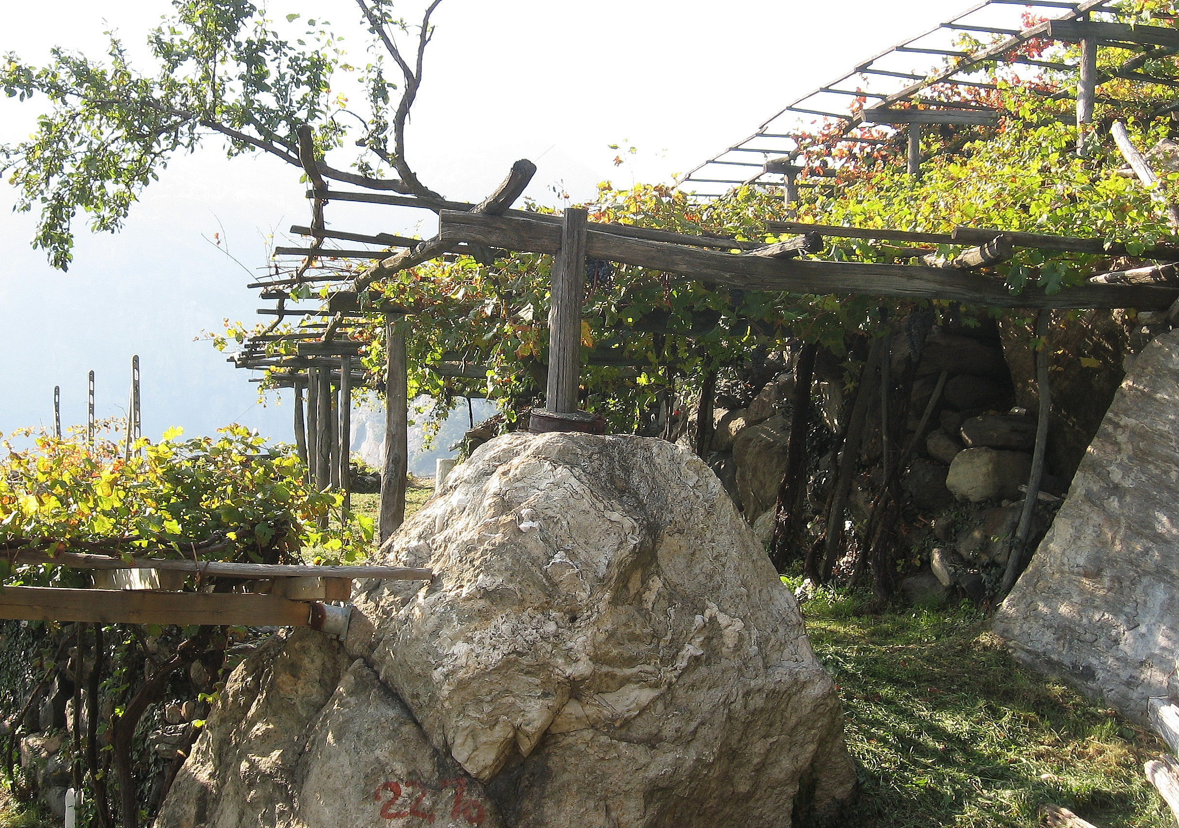 Traditional wineyard terraces in Donnas (AO, Italy)